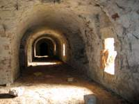 Author: Nenad Seguljev Category:Novi Sad images